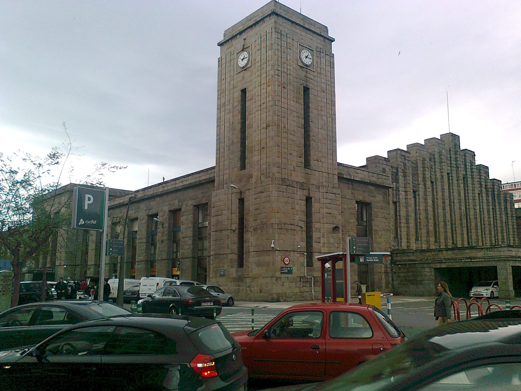 A Coruña railway station (Galicia, Spain).